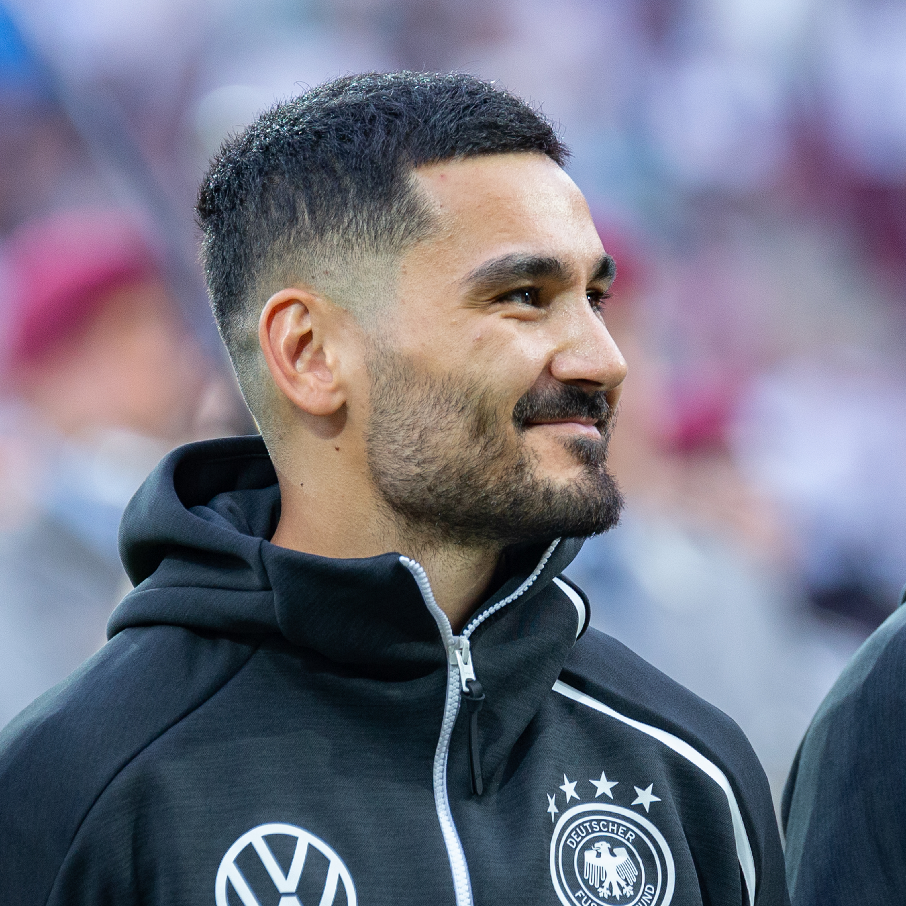 UEFA Euro 2020 qualifier Germany-Estonia